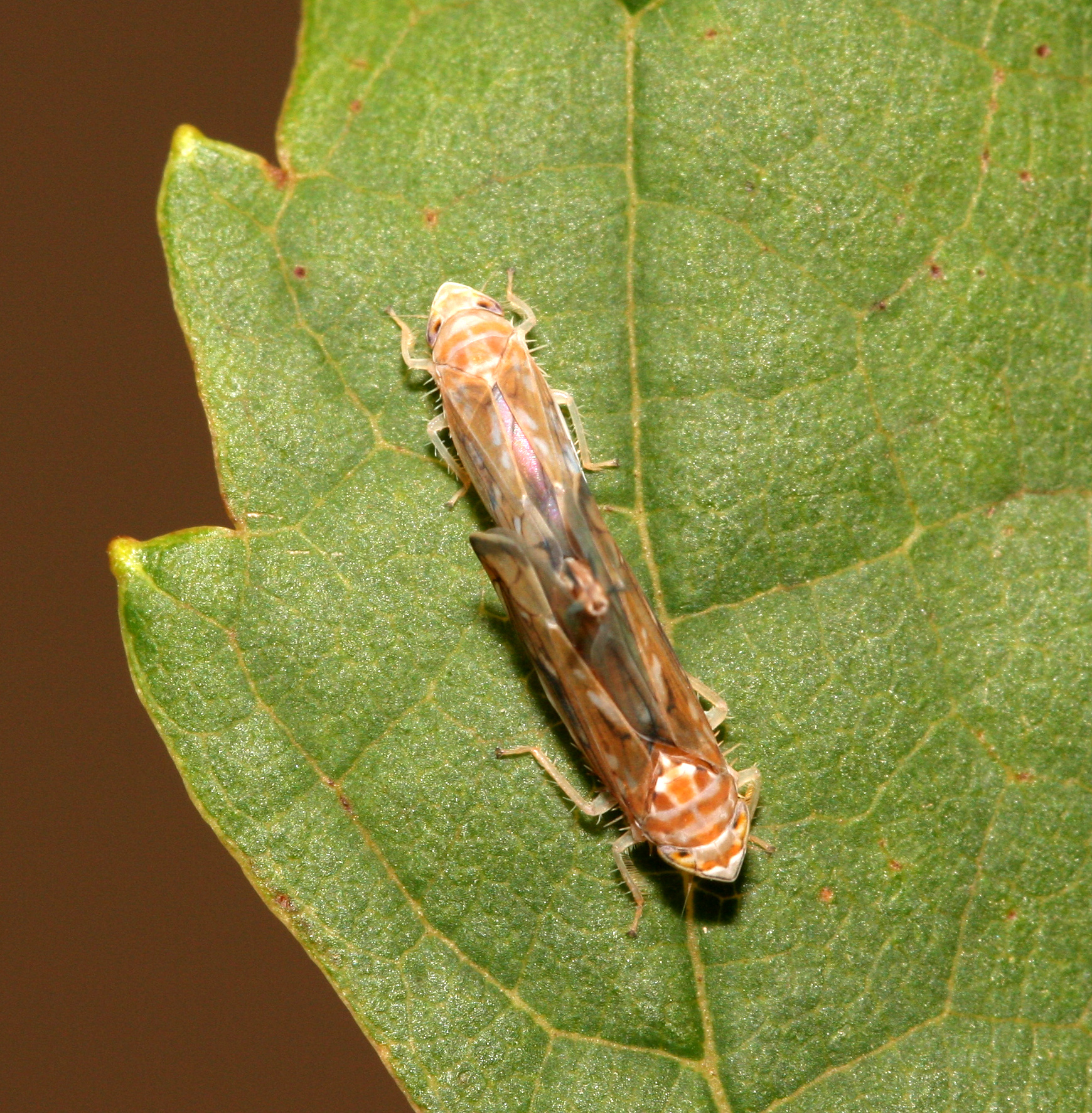 A pair of Scaphoideus titanus mating on a grapevine leaf (male above, female below), photographed in the lab of Fondazione Edmund Mach, Trentino, Italy.